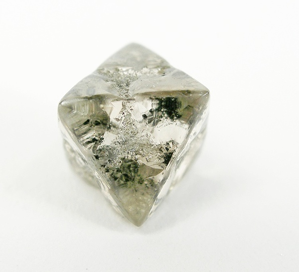 Diamond Locality: Argyle mine (Argyle AK1 pipe), Lake Argyle area, Kimberley, Western Australia, Australia Size: thumbnail, 0.9 x 0.9 x 0.8 cm Diamond 4.27 carats3 carats, sharp, cleaner than most here, and VERY gemmy and impressive